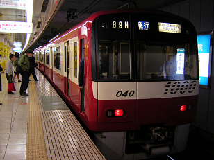 Keikyu 1040 EMU at Haneda Airport station